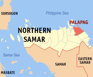 Map of Northern Samar showing the location of Palapag